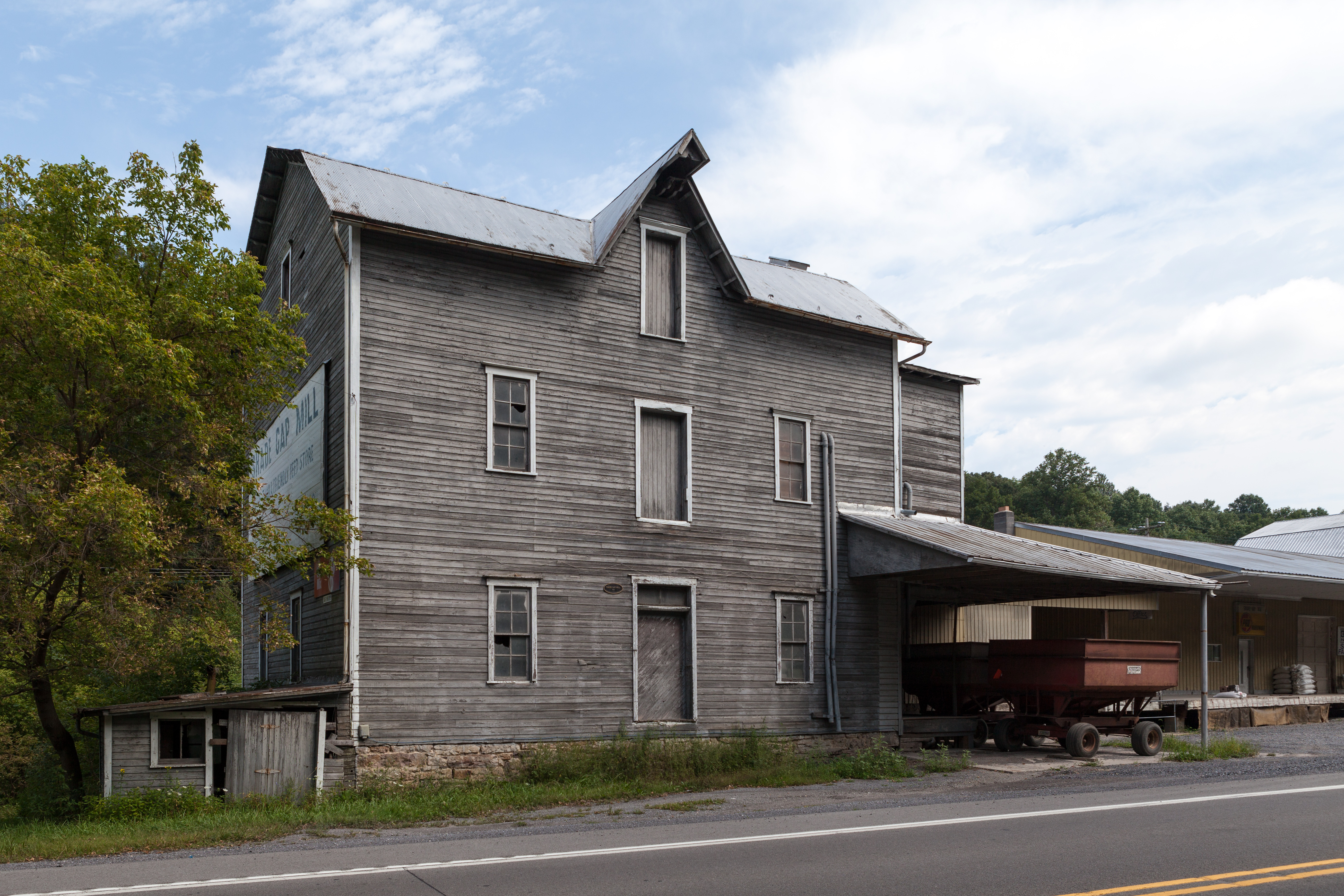 Shade Gap Feed and Flour Mill, south and west sides